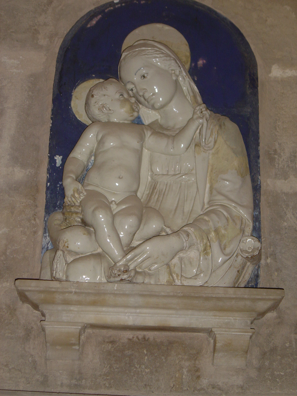 Virgen del Cojín en la Capilla de Santiago de la Catedral de Sevilla